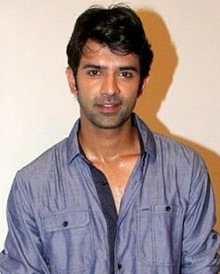 Barun Sobti